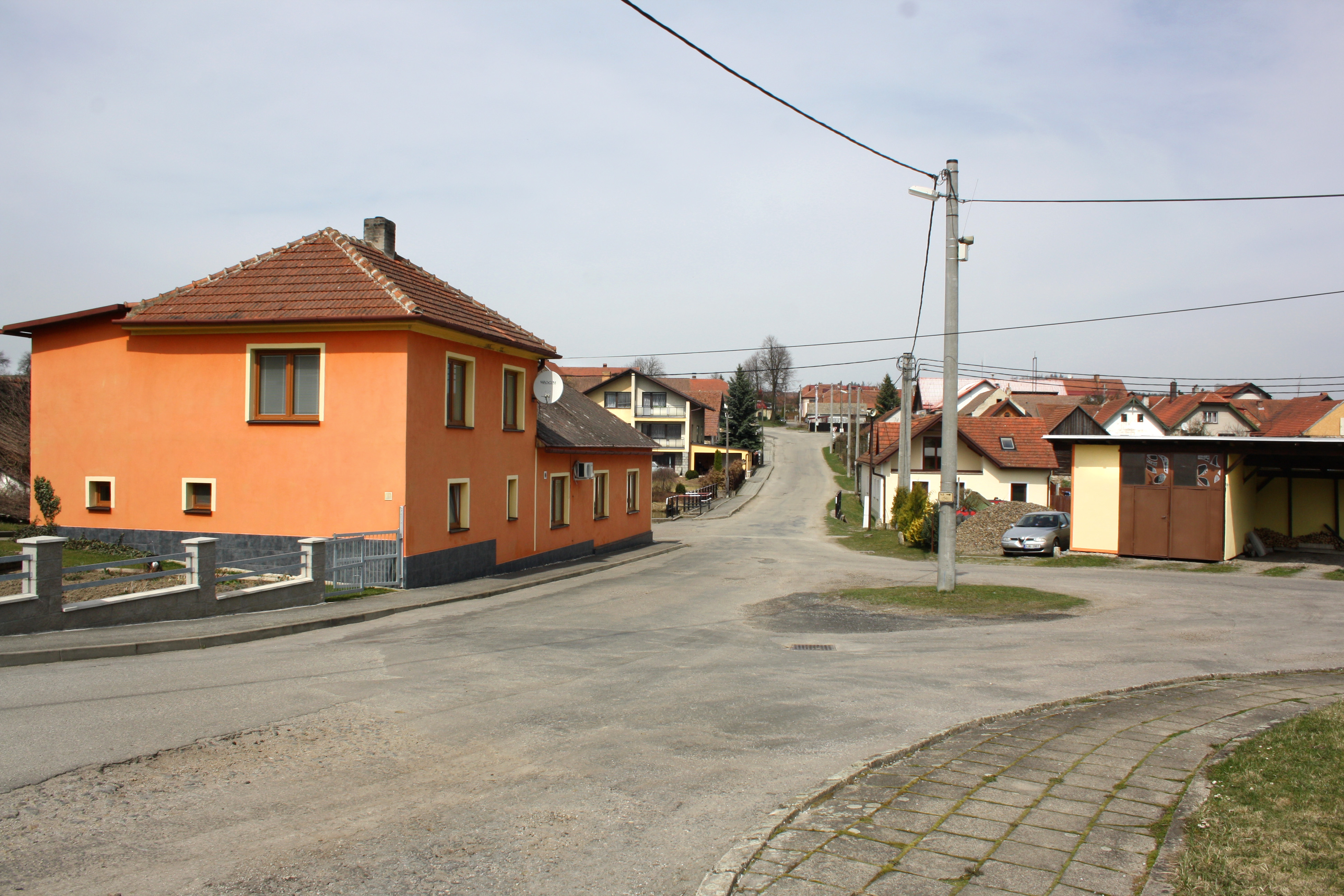 South common in Pavlínov